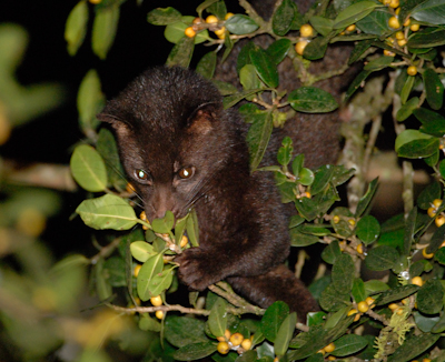 Brown palm civet feeding on fig